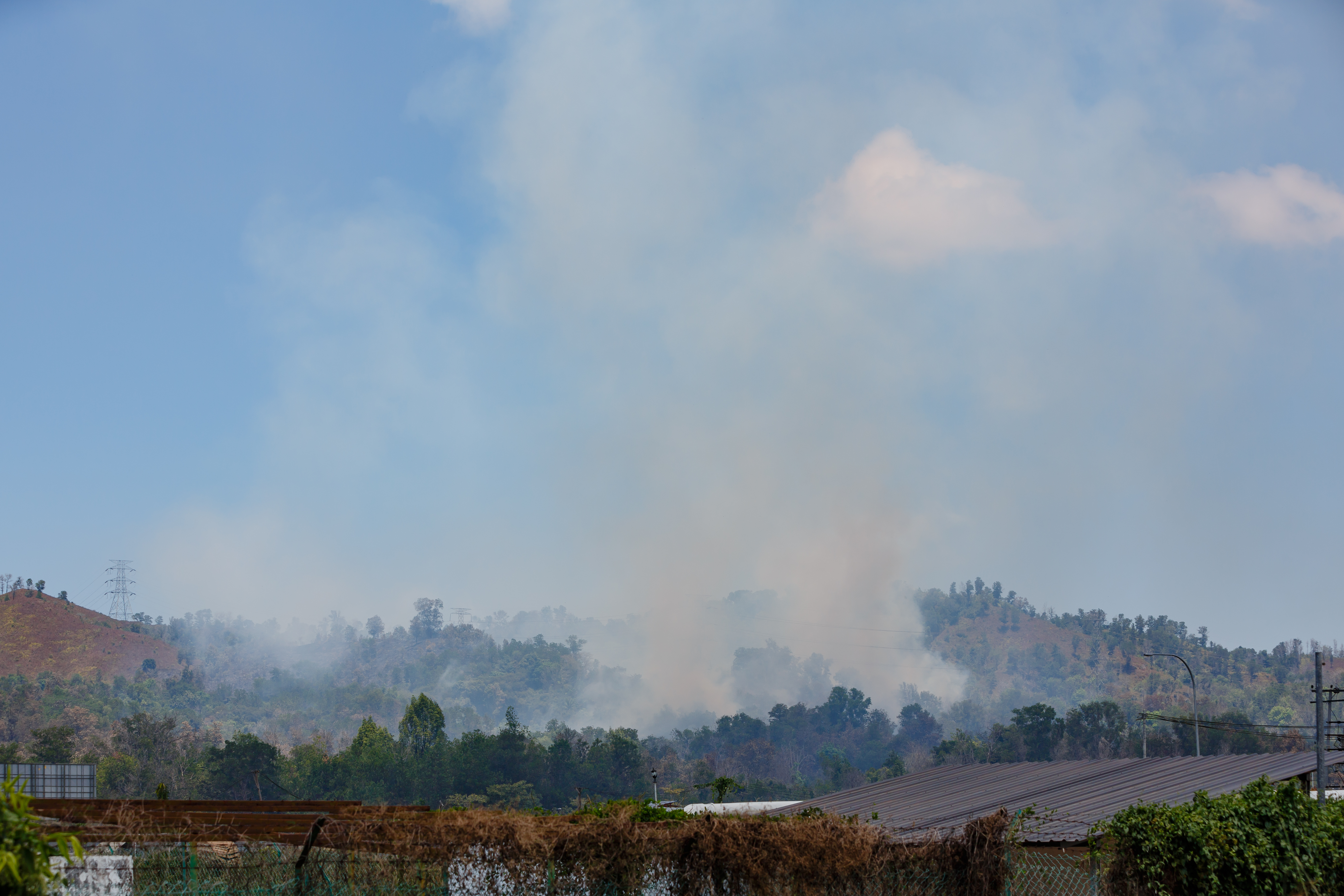 Tuaran Road, Sabah: Bush fires at Bukit Locob. Such fires are the main reason for haze at the West Coast of Sabah